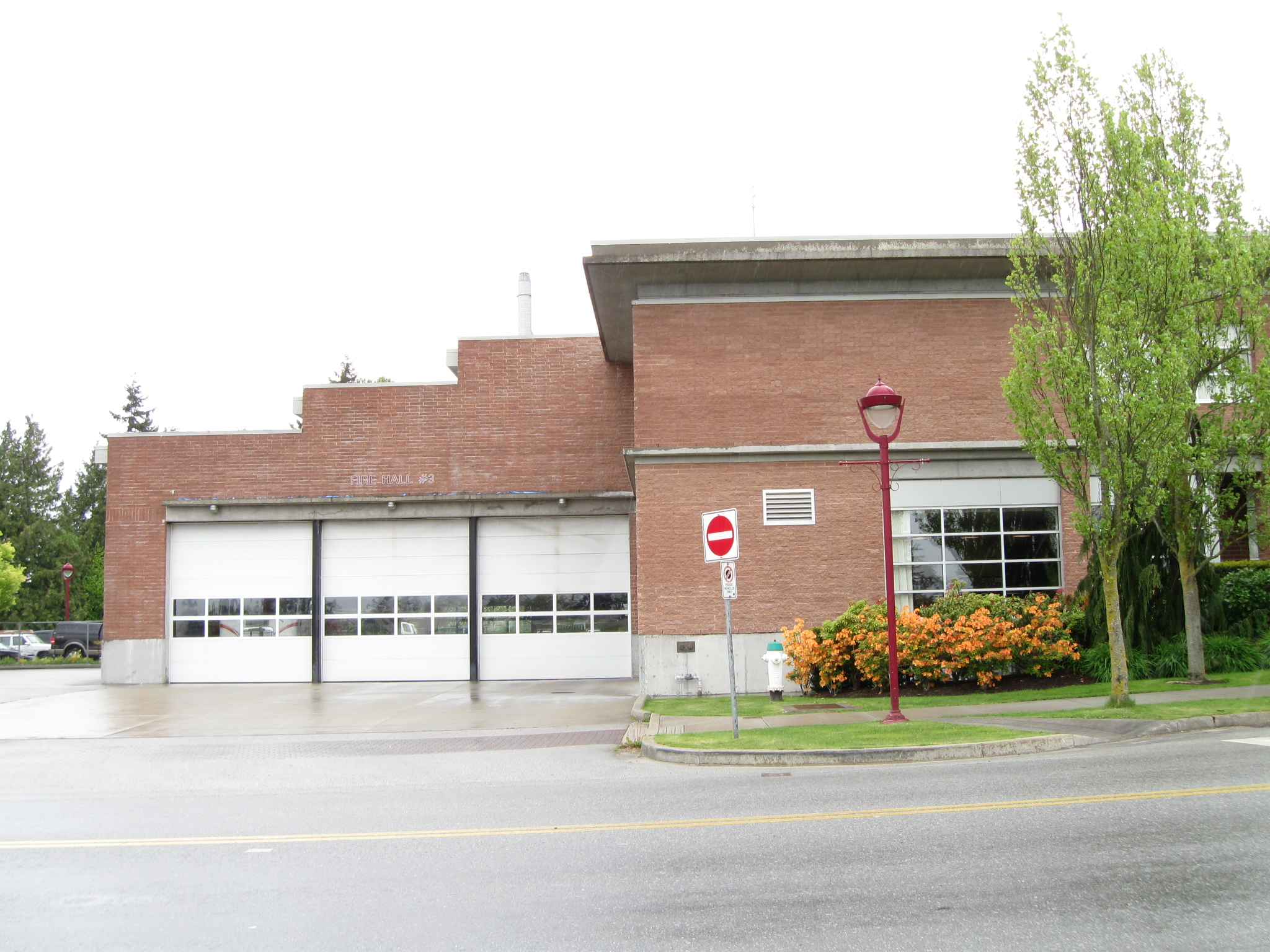 This is a north facing view of Fire Hall No.3 along 84 Avenue which is attached to the modern red brick North Delta Public Safety building. This building is located at 11375 84 Avenue in the Corporation of Delta, British Columbia, Canada.